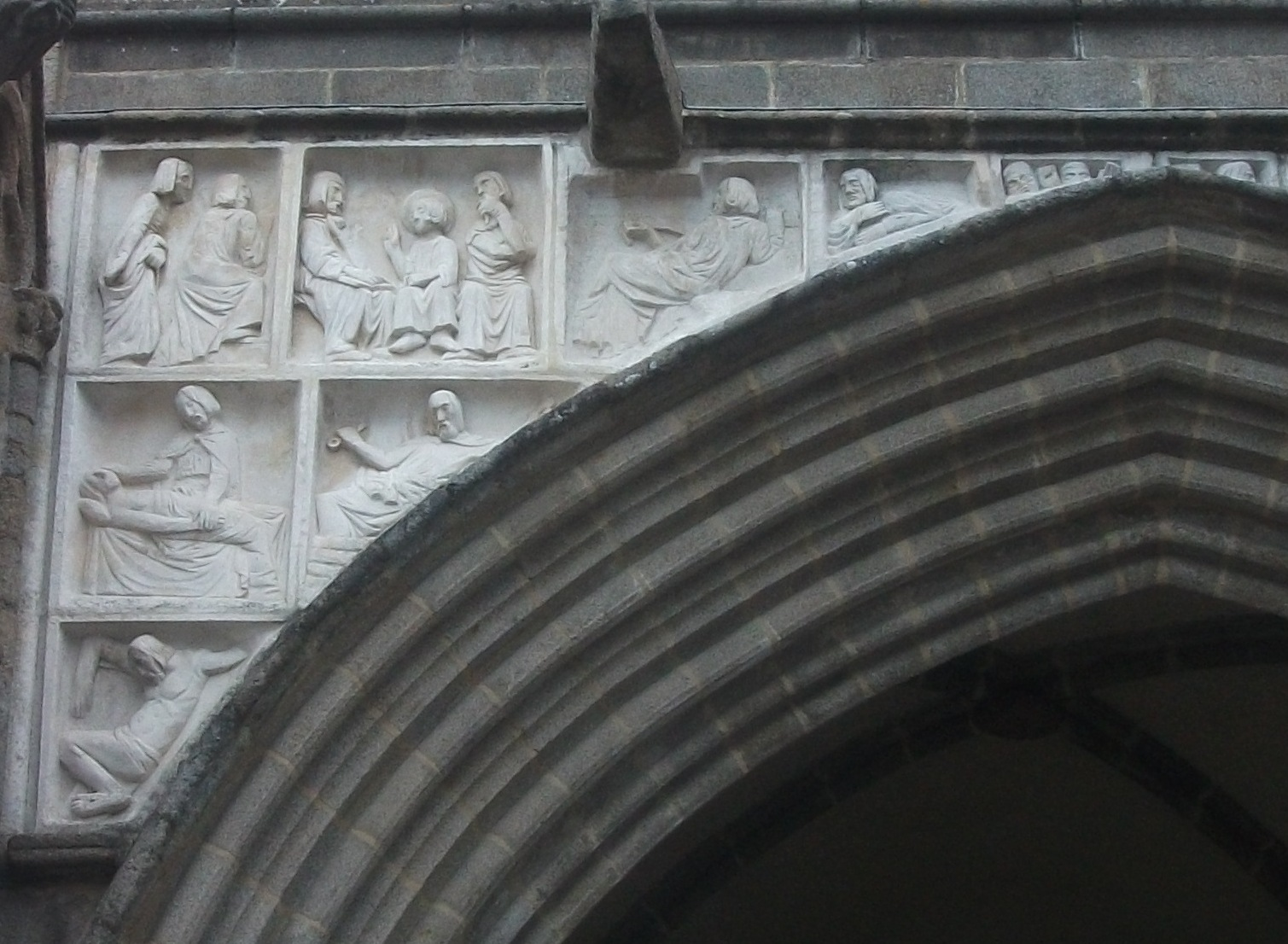 sculptures on the exterior of Dol cathedral by Jean Boucher (d 1939)